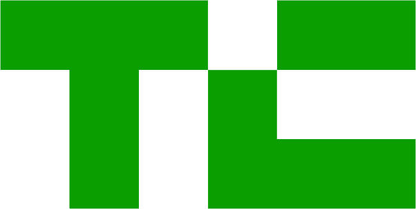 TechCrunch Logo since October 2013